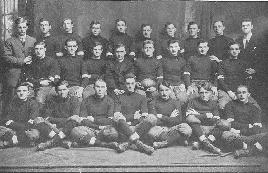 This is a team picture of the 1911 St. Bonaventure footballers. It was published in St. Bonaventure's student newspaper, The Laurel, along with a through evaluation of the team's football season.